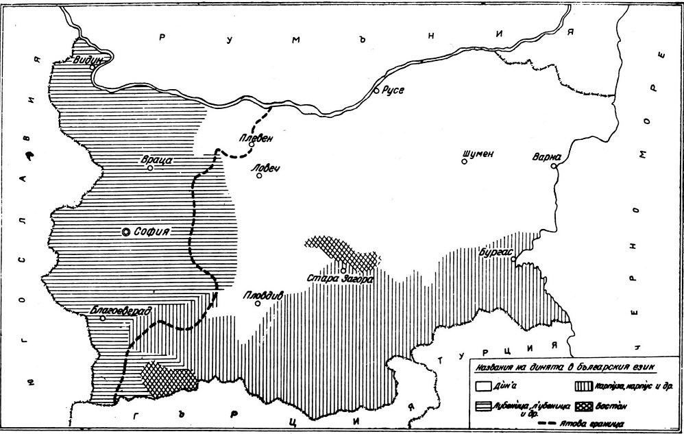 Map showing the names of water melon in Bulgarian speech.